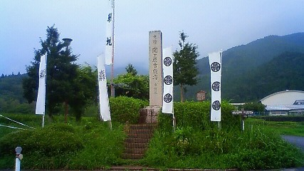 Battle of Sekigahara Monument, Sekigahara, Gifu Prefecture, Japan.